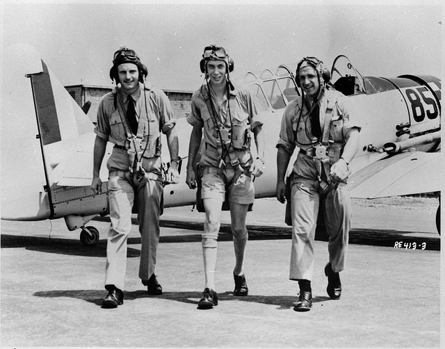 Pilots with a North American Harvard II aircraft, No.31 Service Flying Training School, RCAF, Kingston, Ontario, 1943